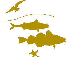 Marine Institute Ireland, Fisheries Service Sector Symbol